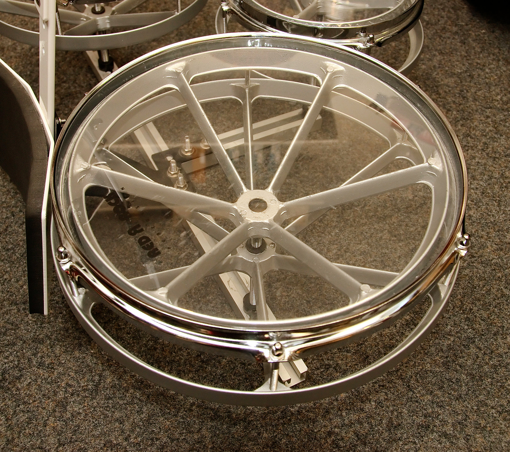 A Rototom is a tom without shell which can be tuned by turning the rim.